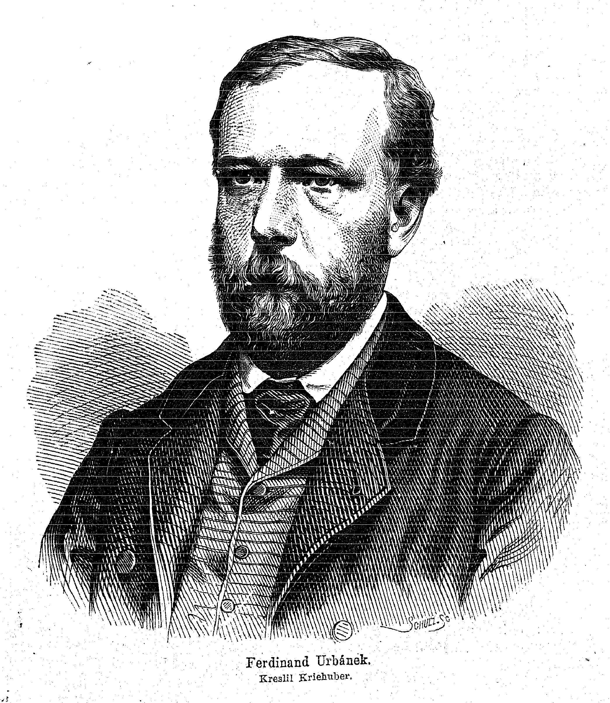 Portrait of Ferdinand Urbánek (1821 - 1887), Czech entrepreneur in sugar production industry and organizer of culture